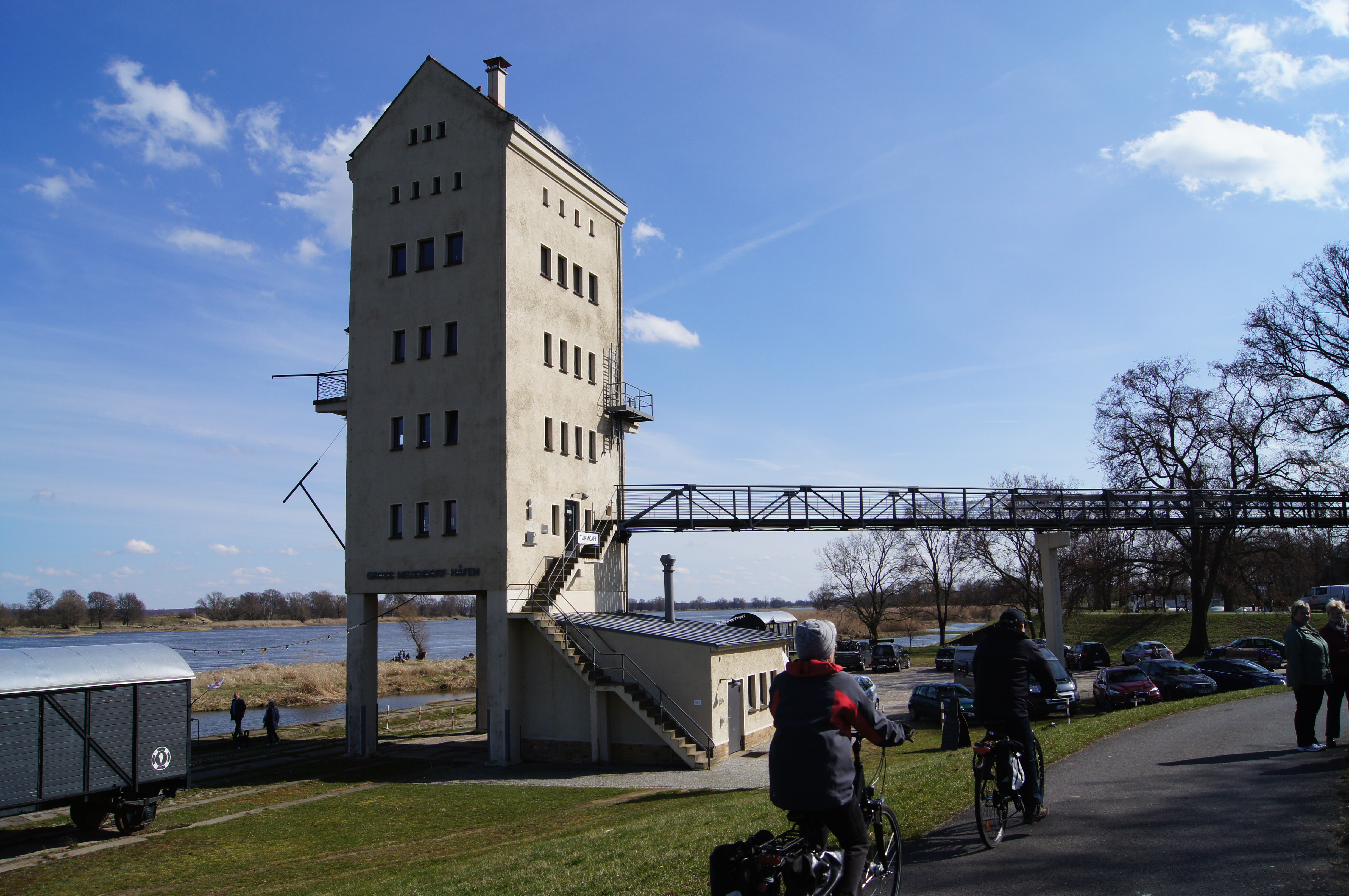 Habour Gross Neuendorf, Letschin, Brandenburg, Germany